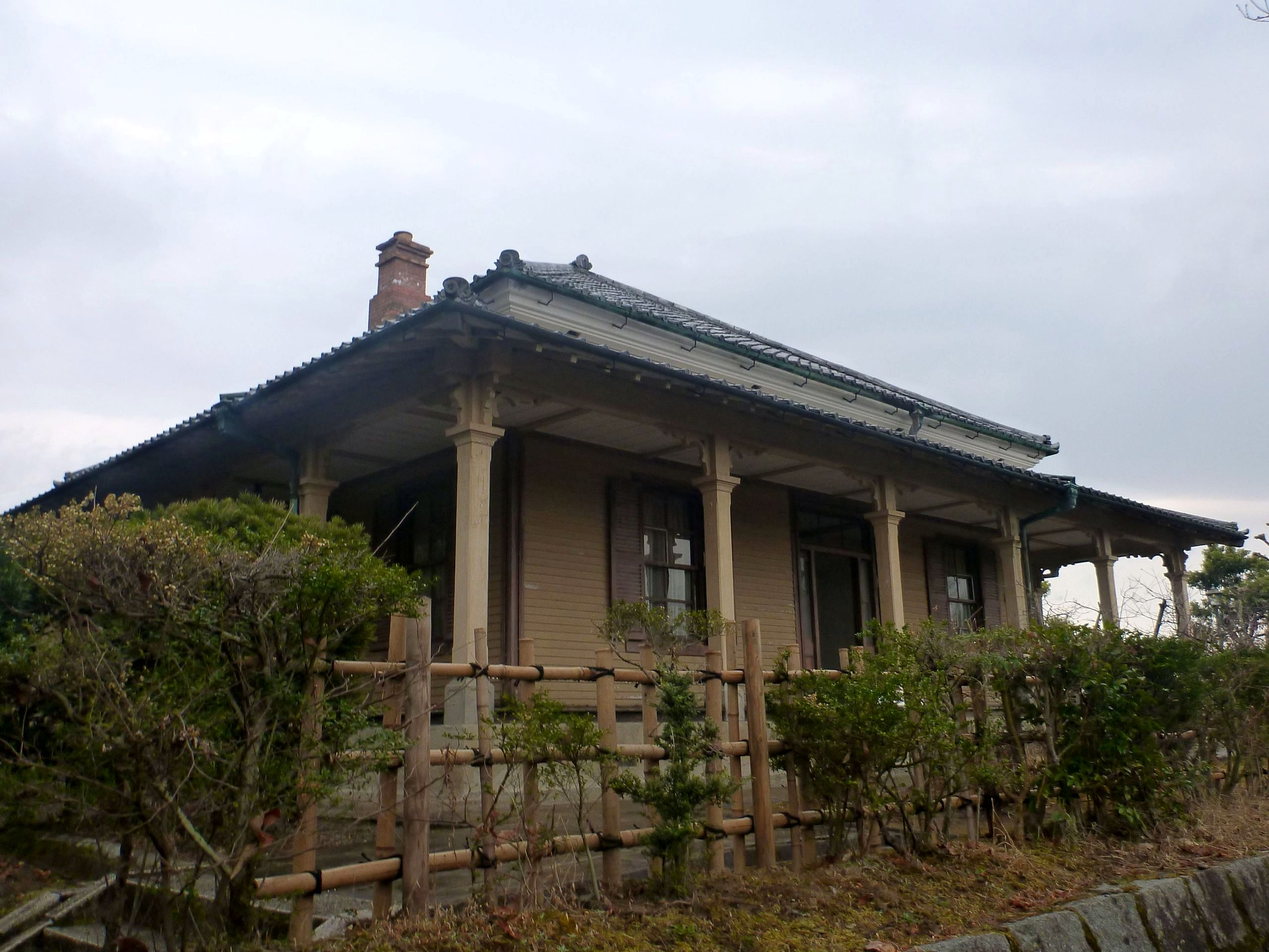 No. 25, Nagasaki Foreign Settlement (Minamiyamate-machi Nagasaki), built in 1889, now at the museum